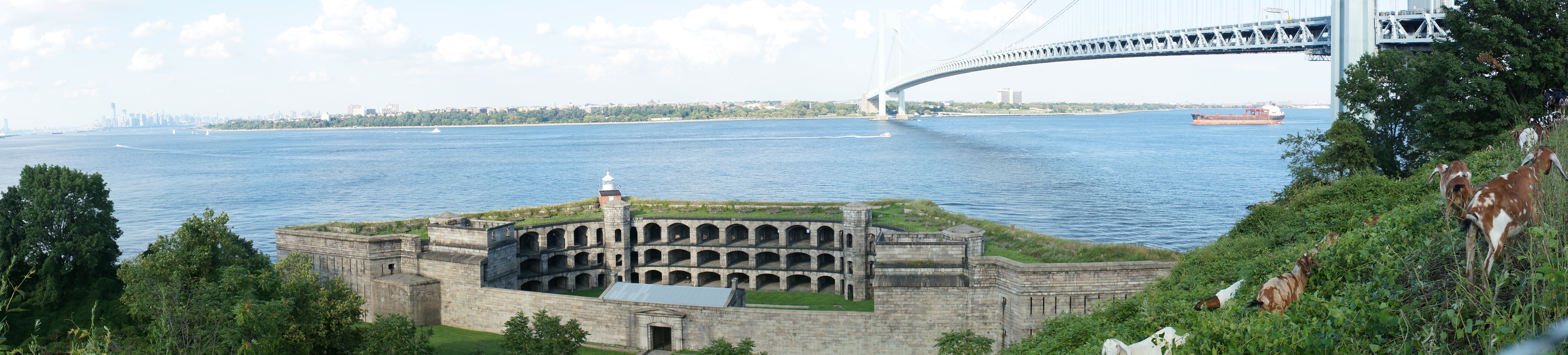 Battery Weed under the Verrazano-Narrows Bridge